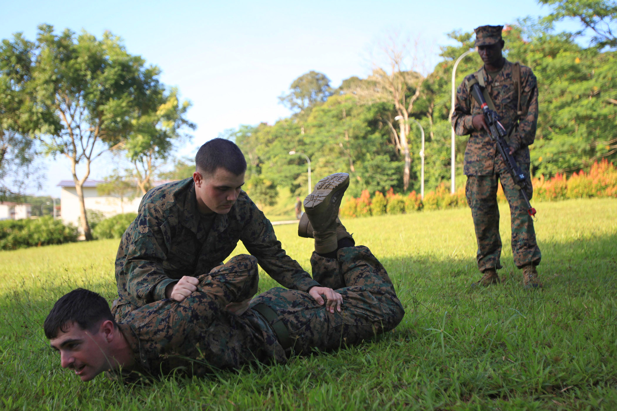 MURAI, Singapore (Dec. 14, 2011) - Cpl. Emanuel N. Young practices a joint manipulation technique on Cpl. Aaron R. Lane during a detainee handling class. Young and Lane serve with Combat Logistics Battalion 11, which provides logistics and services for the 11th Marine Expeditionary Unit. (U.S. Marine Corps photo by Lance Cpl. Claudia M. Palacios)